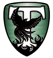 Logo of the Princeton Terrace Club